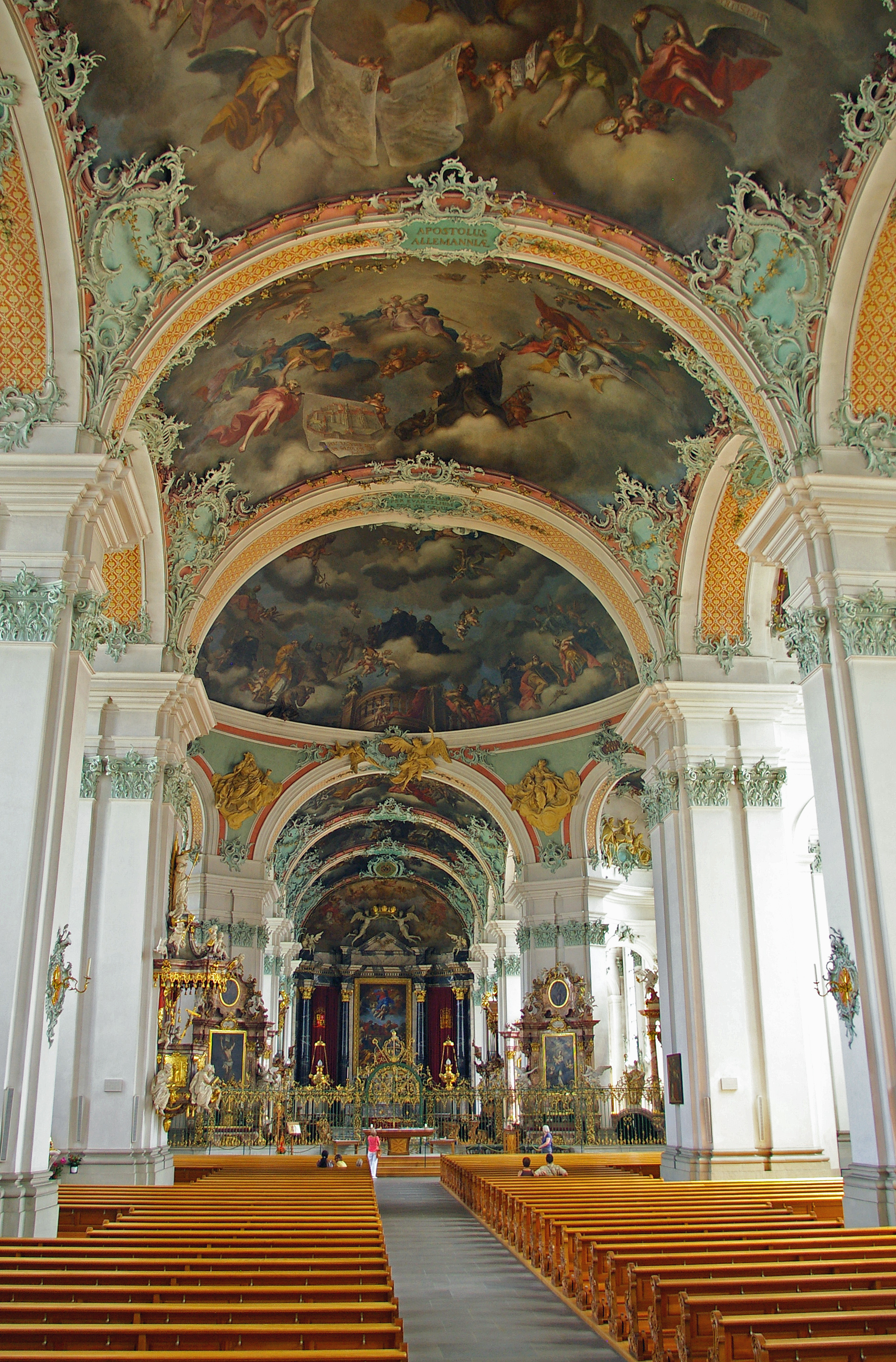 Interior in the abbey church in St.Gallen